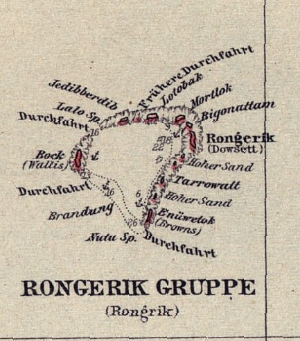 Map of Rongerik Atoll, taken from the 1893 map 'Schutzgebiet der Marshall Inseln', published in 1897. External Link The Marshall Islands - An Electronic Library & Archive of Primary Sources